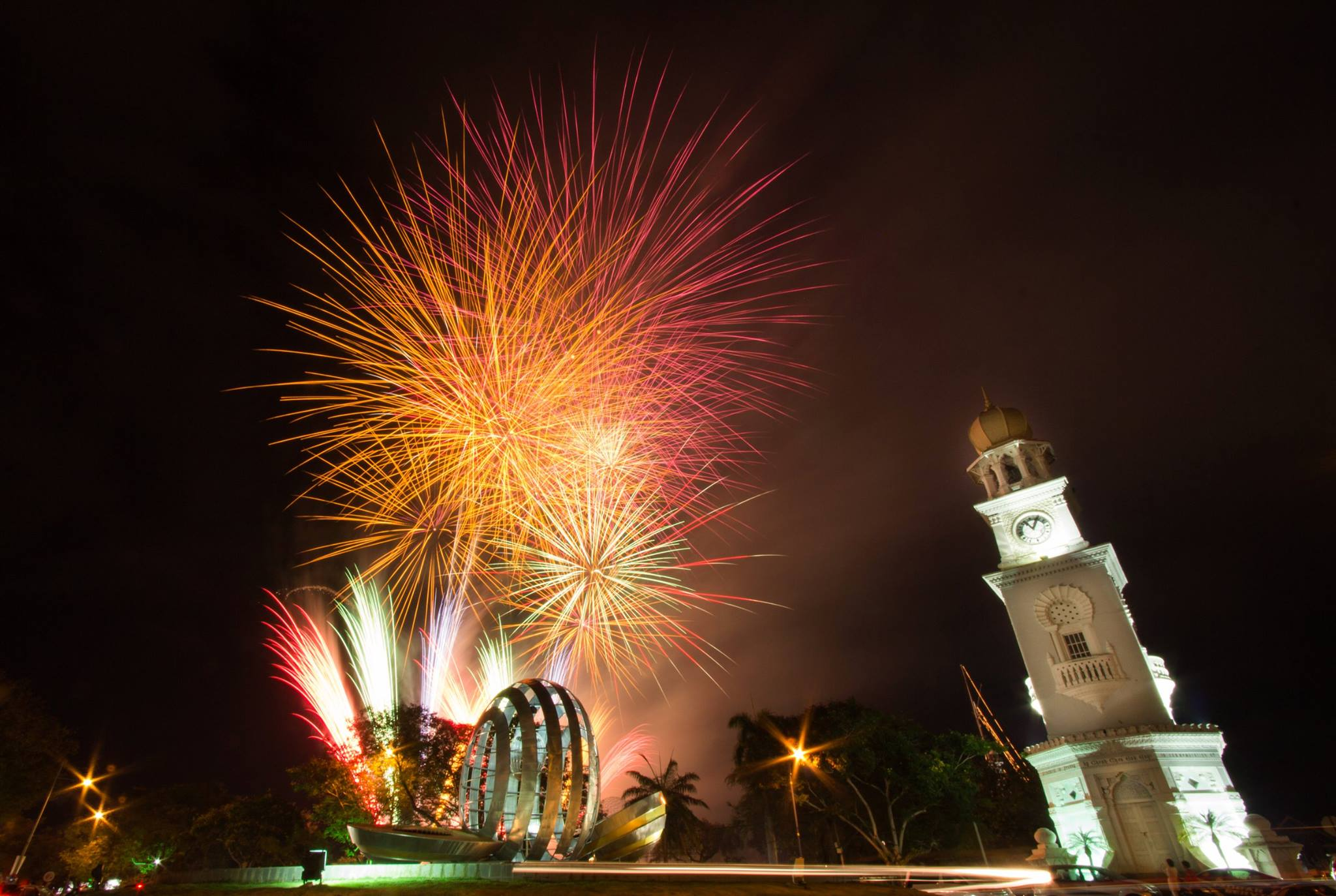 Jubilee Clock Tower